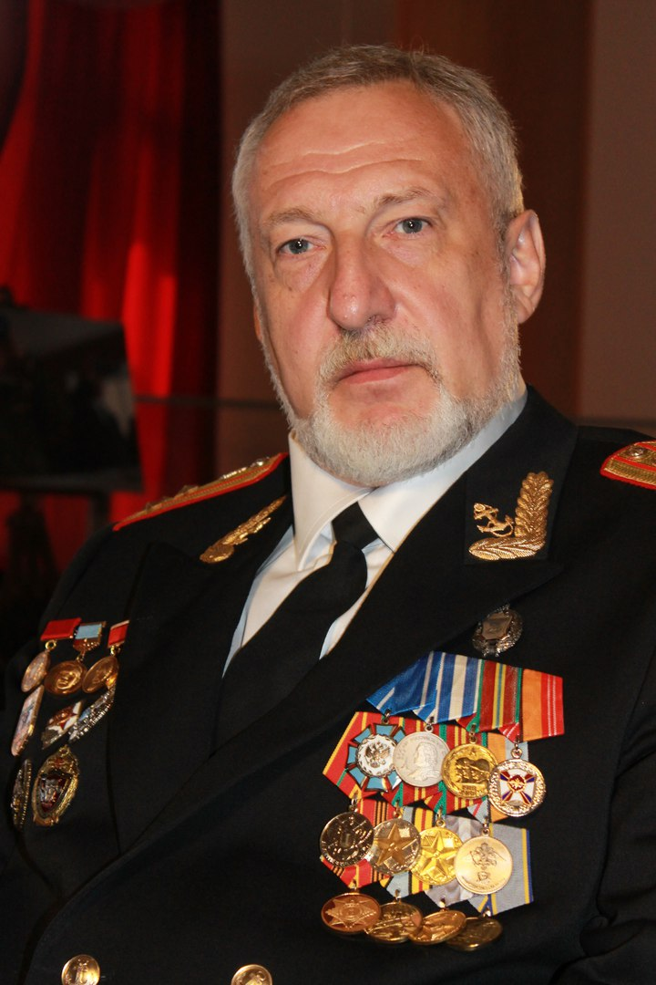 Viktor Kolkutin